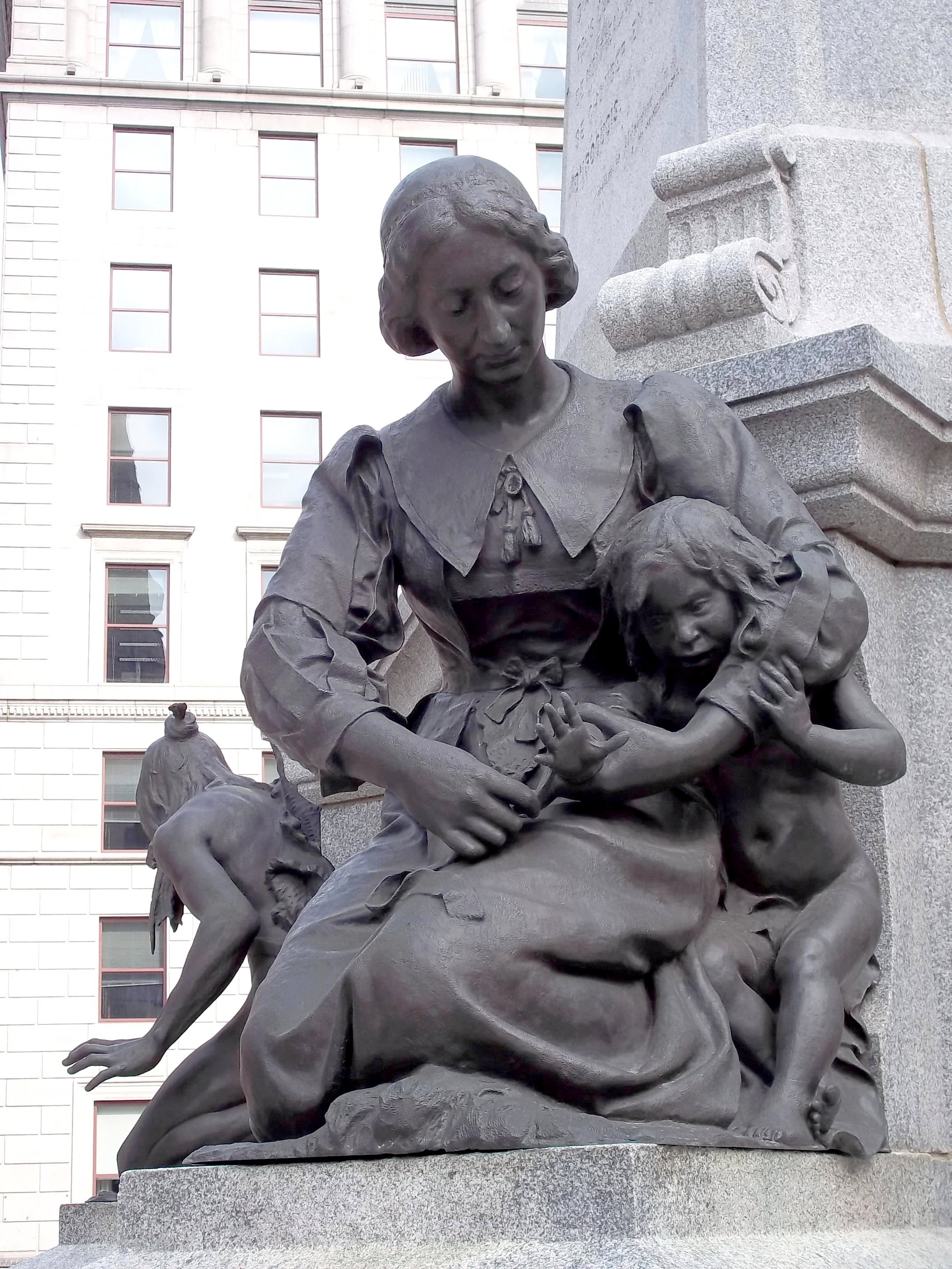 Jeanne Mance, part of Maisonneuve Monument, Louis-Philippe Hébert's work, Place d'Armes, Montreal